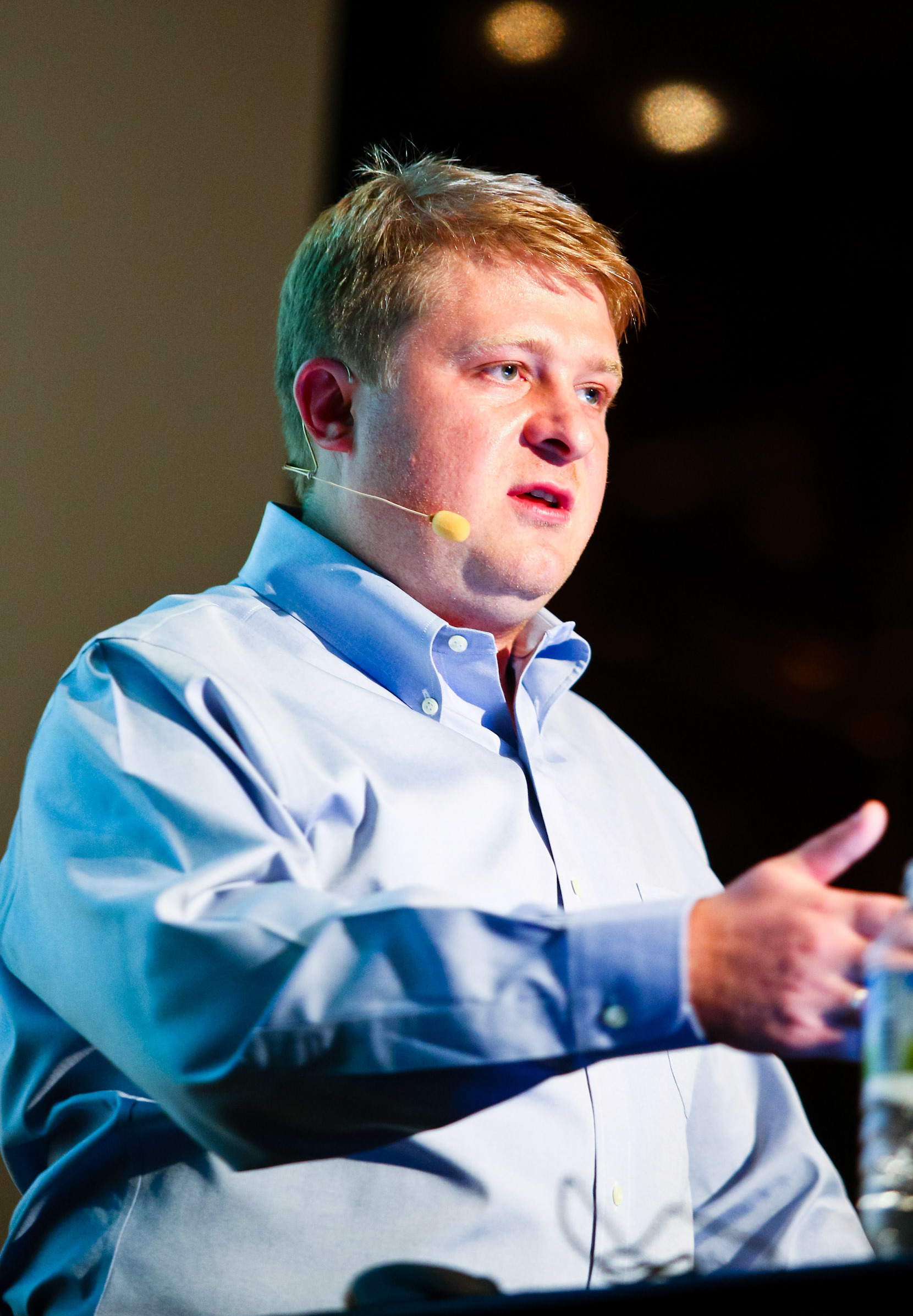 Victor Kislyi, founder and CEO of Wargaming, at Game Developers Conference Europe 2012